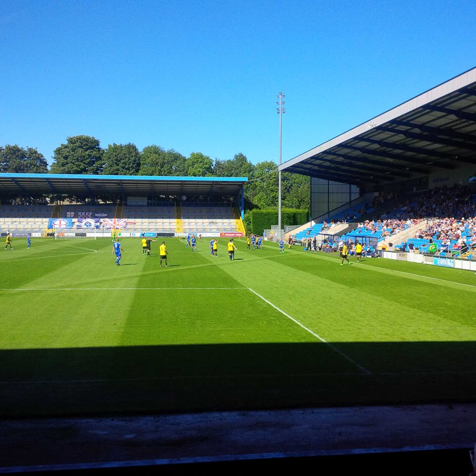 FC Halifax Town vs Harrogate Town, The Shay, Halifax, West Yorkshire. Taken on the afternoon of August Bank Monday the 29th of August 2016.